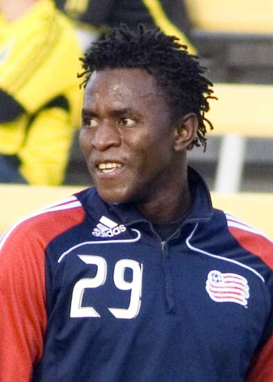 I shot this photo of Abdoulie Mansally as he warmed up prior to the Columbus Crew vs NE Revs game on OCtober 25, 2009